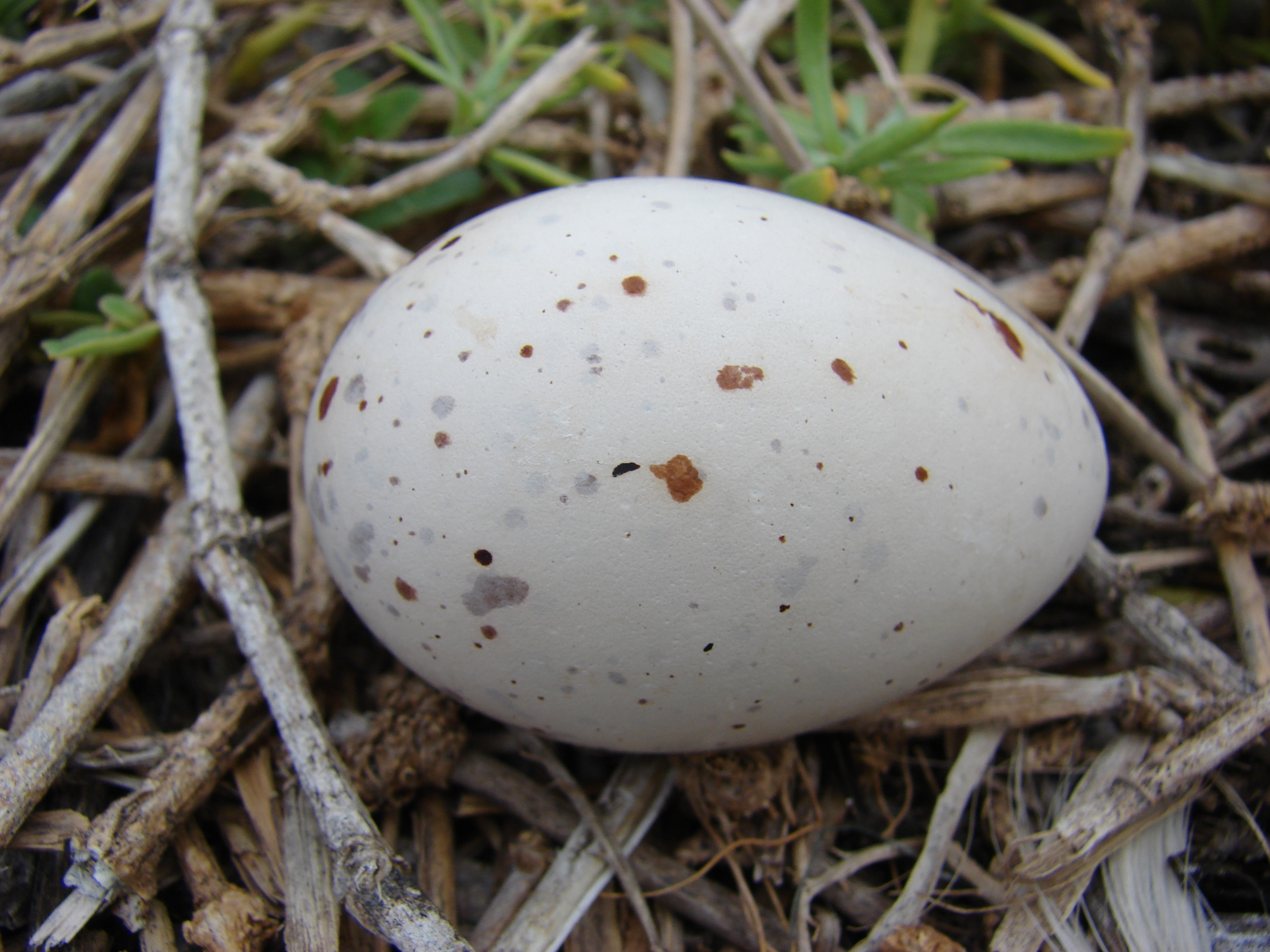 Tribulus cistoides (used for brown noddy nest). Location: Midway Atoll, Abandoned runway Eastern Island